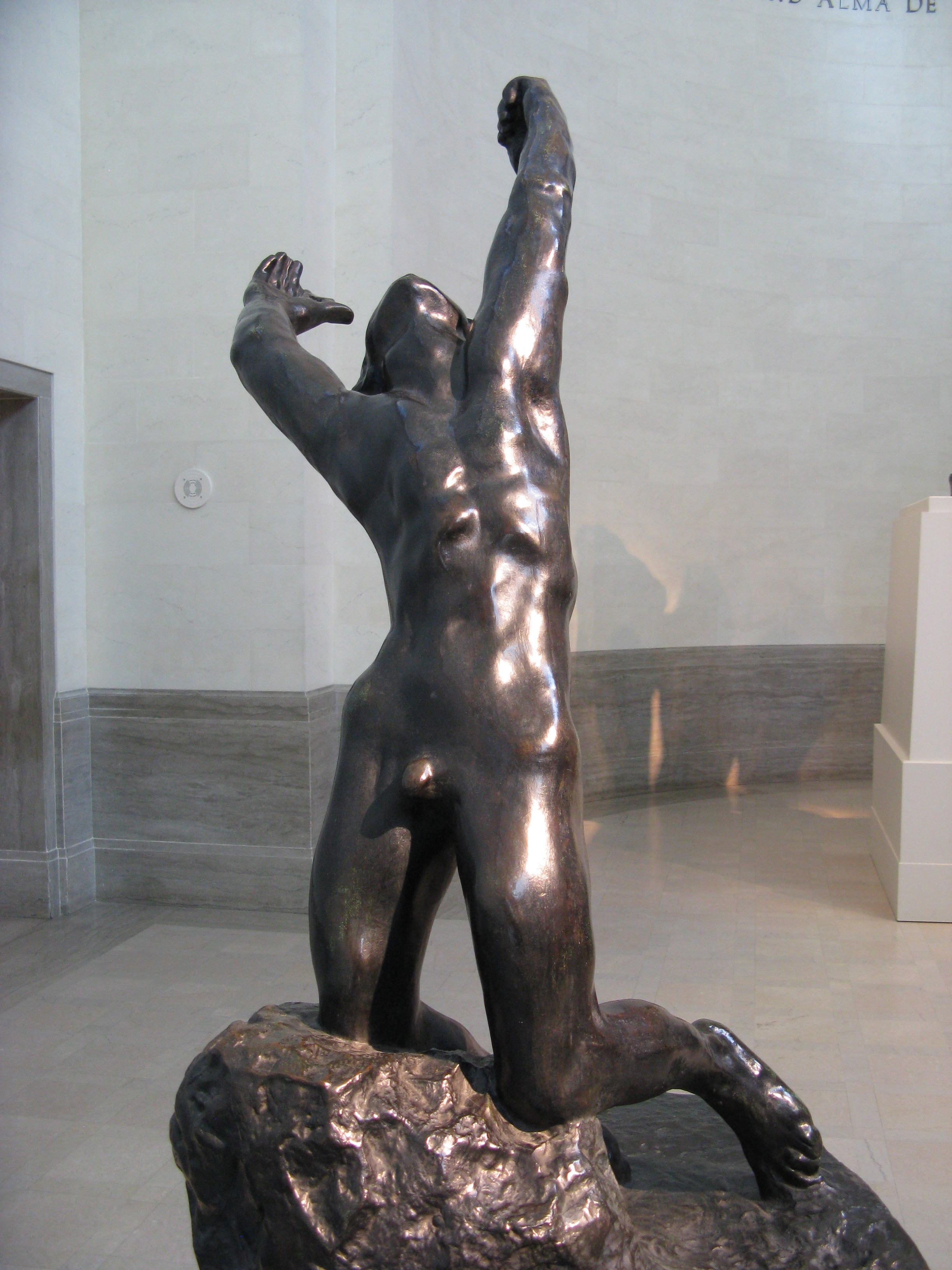 The Prodigal Son by Auguste Rodin atLegion of Honor.